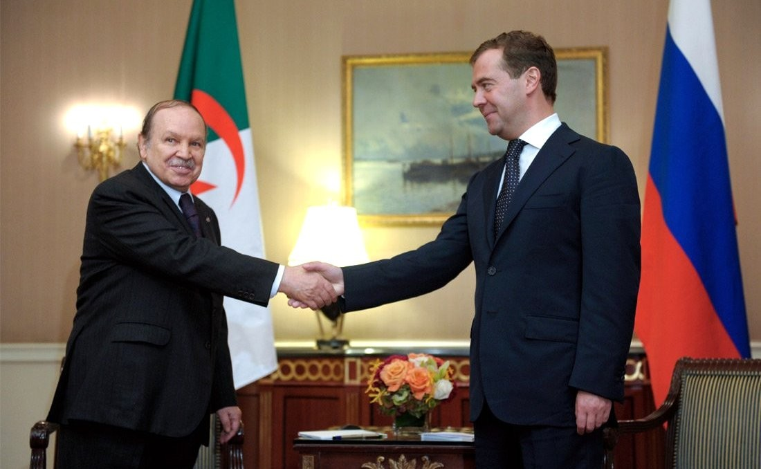 NEW YORK. With President of Algeria Abdelaziz Bouteflika.